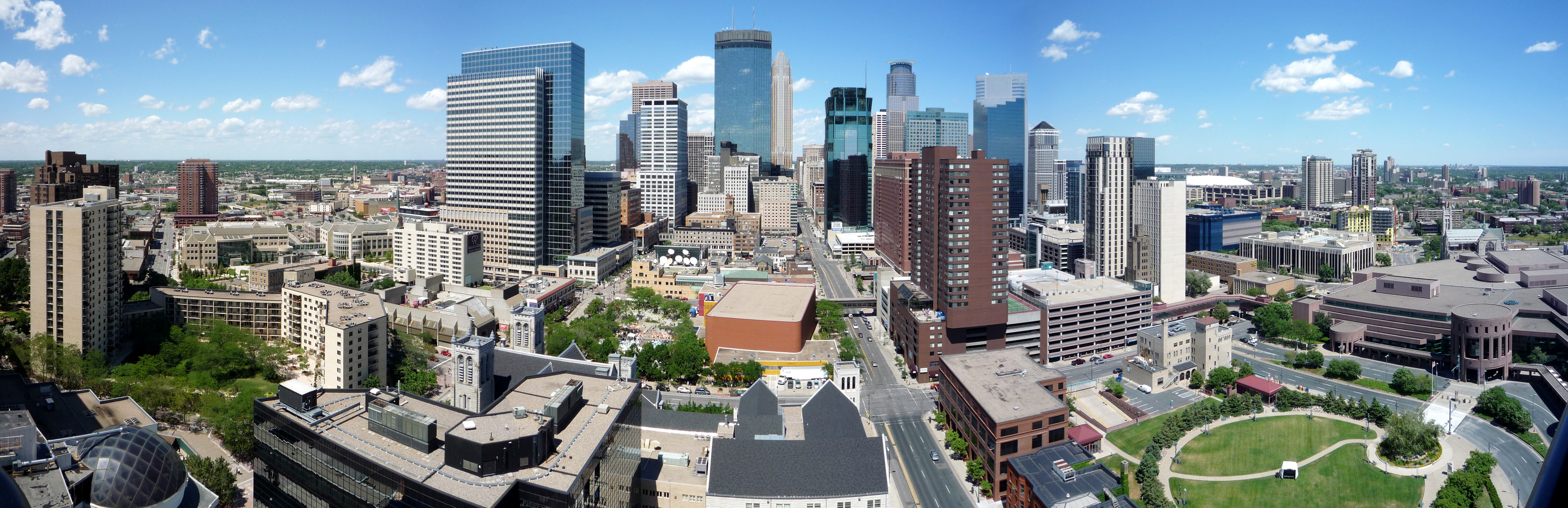 Panoramic photo of downtown Minneapolis, Minnesota. Among the major buildings and sites visible in this photo, from left to right are: some of the condo towers of the Loring Park neighborhood; the Minneapolis campus of the University of St. Thomas (particularly the School of Law); the headquarters office buildings of the Target Corporation; the headquarters office building of U.S. Bancorp; IDS Center; in the foreground of IDS Center are the studios of WCCO-TV, Orchestra Hall, and Westminster Presbyterian Church; back on the skyline, Wells Fargo Center; Capella Tower; the large, white inflatable roof of the Hubert H. Humphrey Metrodome; behind the Metrodome are some of the buildings of the University of Minnesota's Minneapolis Campus; immediately in front of the Metrodome is Hennepin County Medical Center; visible in the foreground below the Metrodome is the back of the Architects and Engineers Building and a portion of the Minneapolis Convention Center; above the Convention Center are some of the new condominium towers of the Elliot Park neighborhood; above the to the top right horizon is the skyline of Downtown St. Paul.